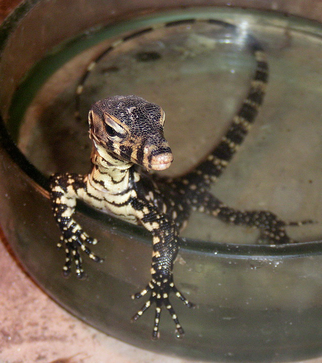 Varan